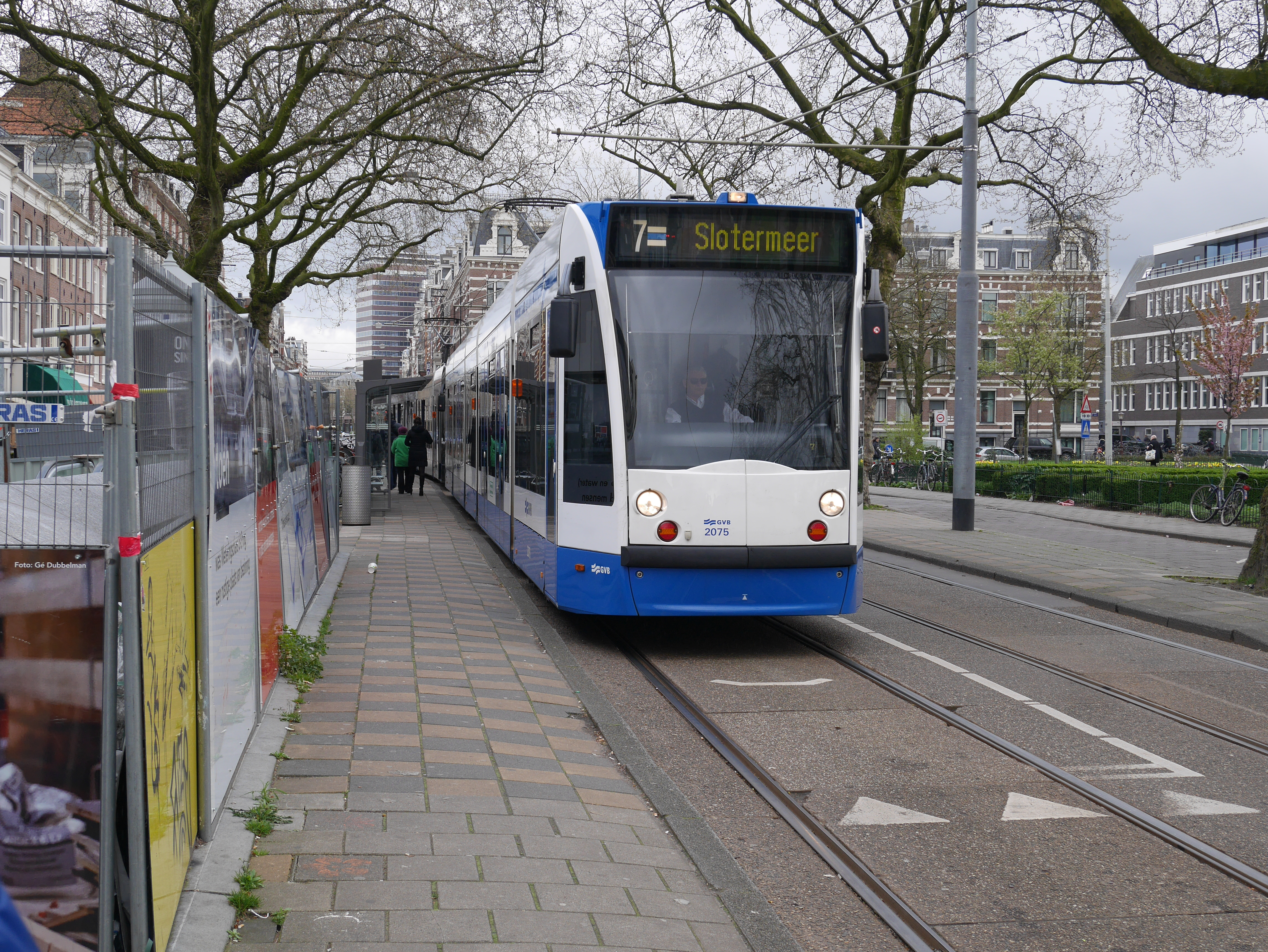 Tram at Weteringcircuit, Amsterdam.